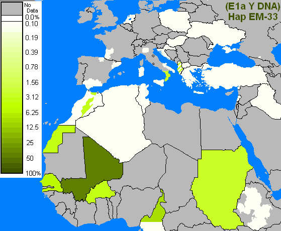 ==Distribution of Y haplotype EM-33 E1a in North Africa, West Asia and Europe. Data psuedocolored based on data in Table 1. from (Am J Hum Genet. 2004 May; 74(5): 1023–1034.) Regions with stripes indicate data given twice of a region but substantively different values. For Albania, the colors indicate Calabrian Albanians or Albanians, For Israel the colors are either Ashkenazi or Sephardic Jews. The map from which the boundaries were derived was rebordered black, bodies of water were recolored blue. The image was painted in paintbrush.